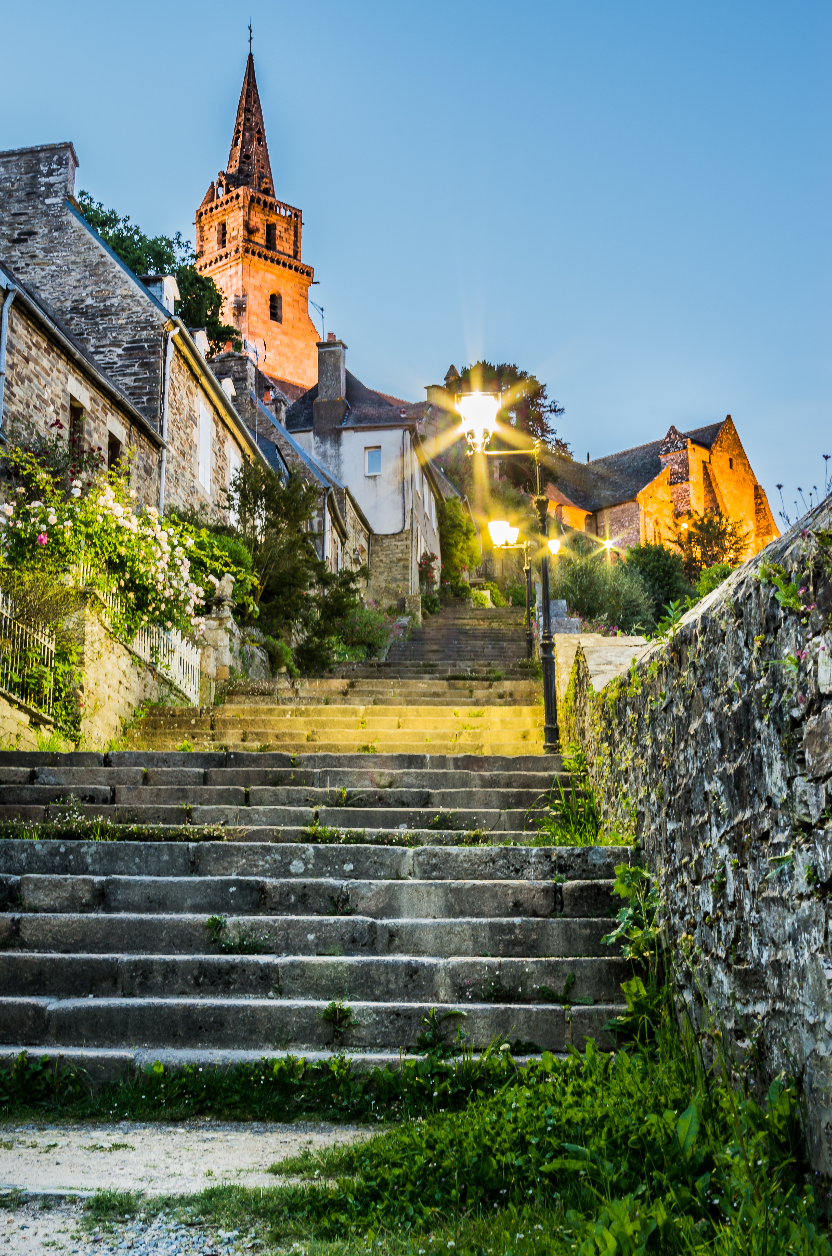 The stairs to the Church in Lannion. This is a medieval period church belonging to the age of Templars. This is one of the main church of Lannion. This is late evening picture of the Church. To add the star burst effect I increased the aperture value and set it on tripod. The Pinacle of the church is exposed by the setting sun and the Sodium lamp. The Top-Right of the Church (In the image) is purely exposed by Sodium lamps.